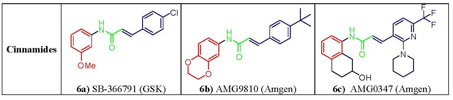 Structure activity relationship of TRPV1 antagonist cinnamide derivatives